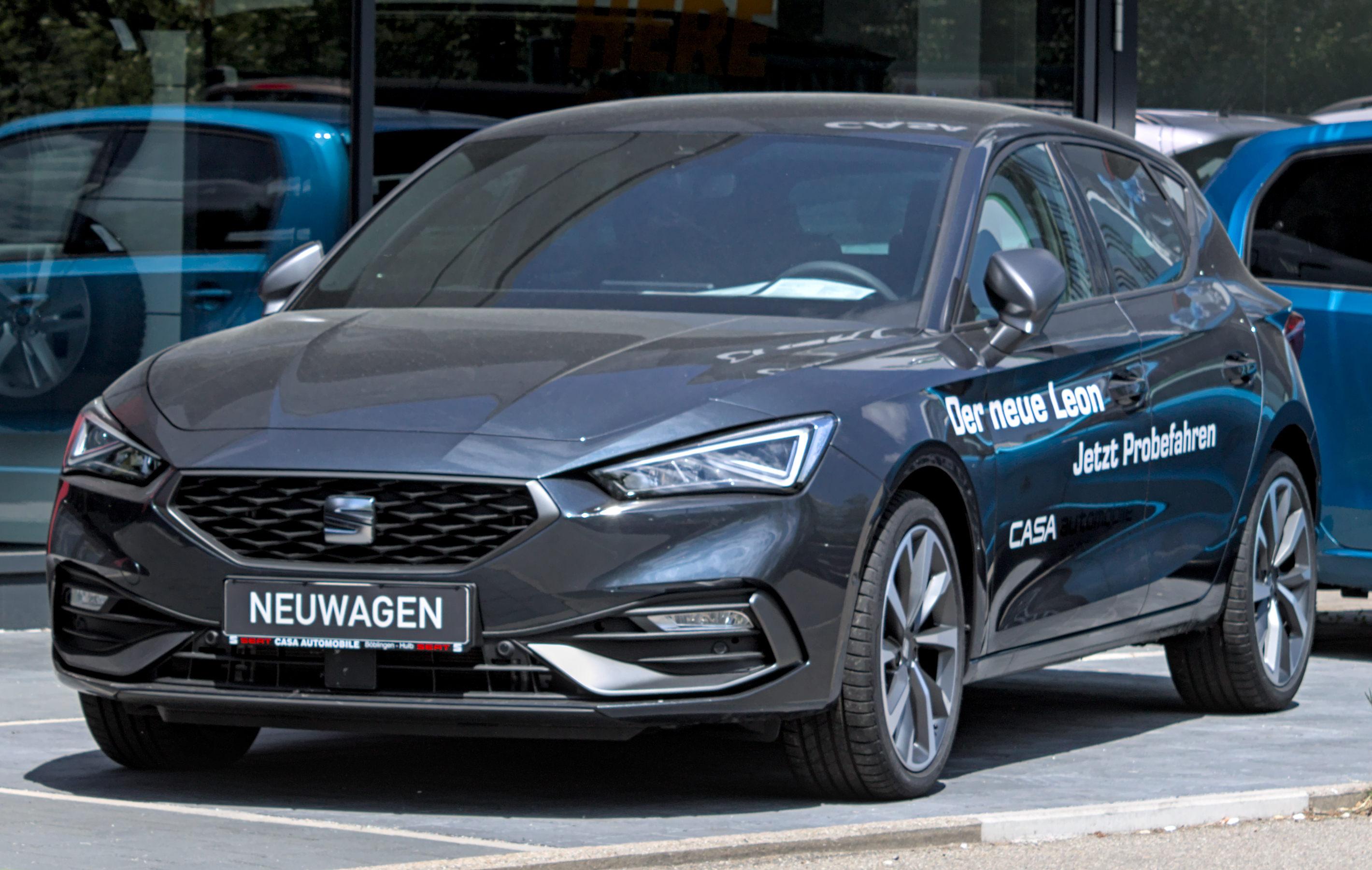 SEAT_Leon_Mk4 in Böblingen